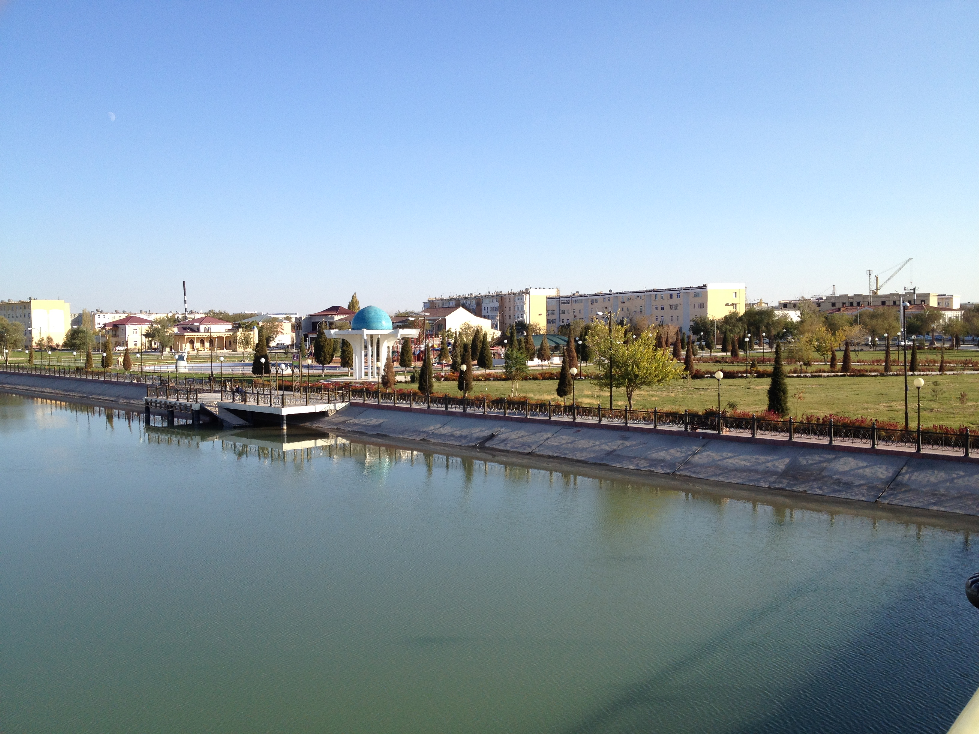 Waterfront of Shavat canal in Urganch ("Avesto" park)Oʻzbekcha/ўзбекча: Shovot kanali bo`yi (Urganch shahri, "Avesto" bog`ida)